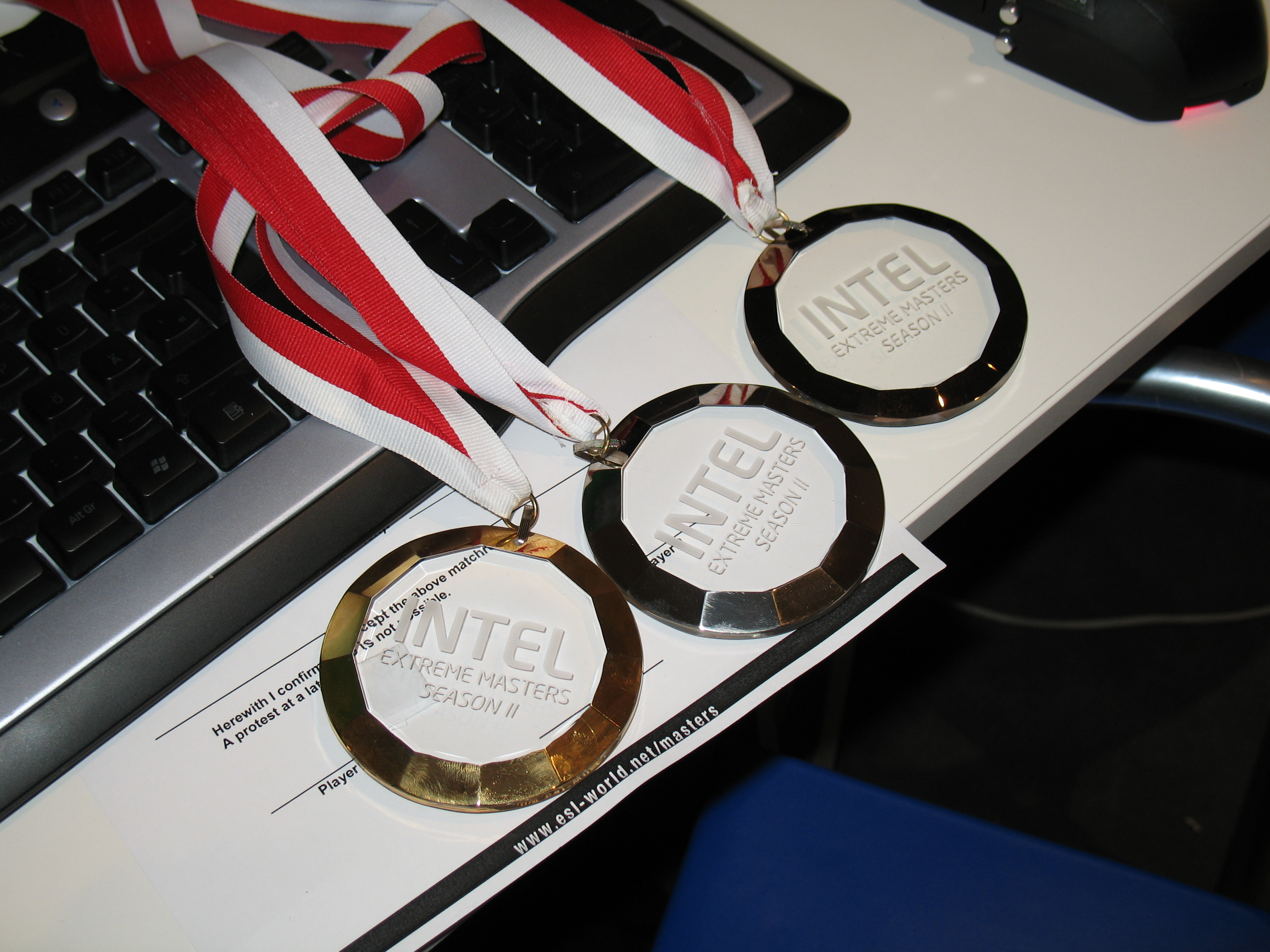 ESL Extreme Masters season II medals